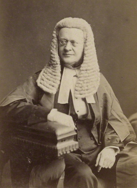 A portrait of Sir William Bovill (1814-73), Chief Justice of the Court of Common Pleas in England from 1866 to 1873, published as a visiting card in 1872